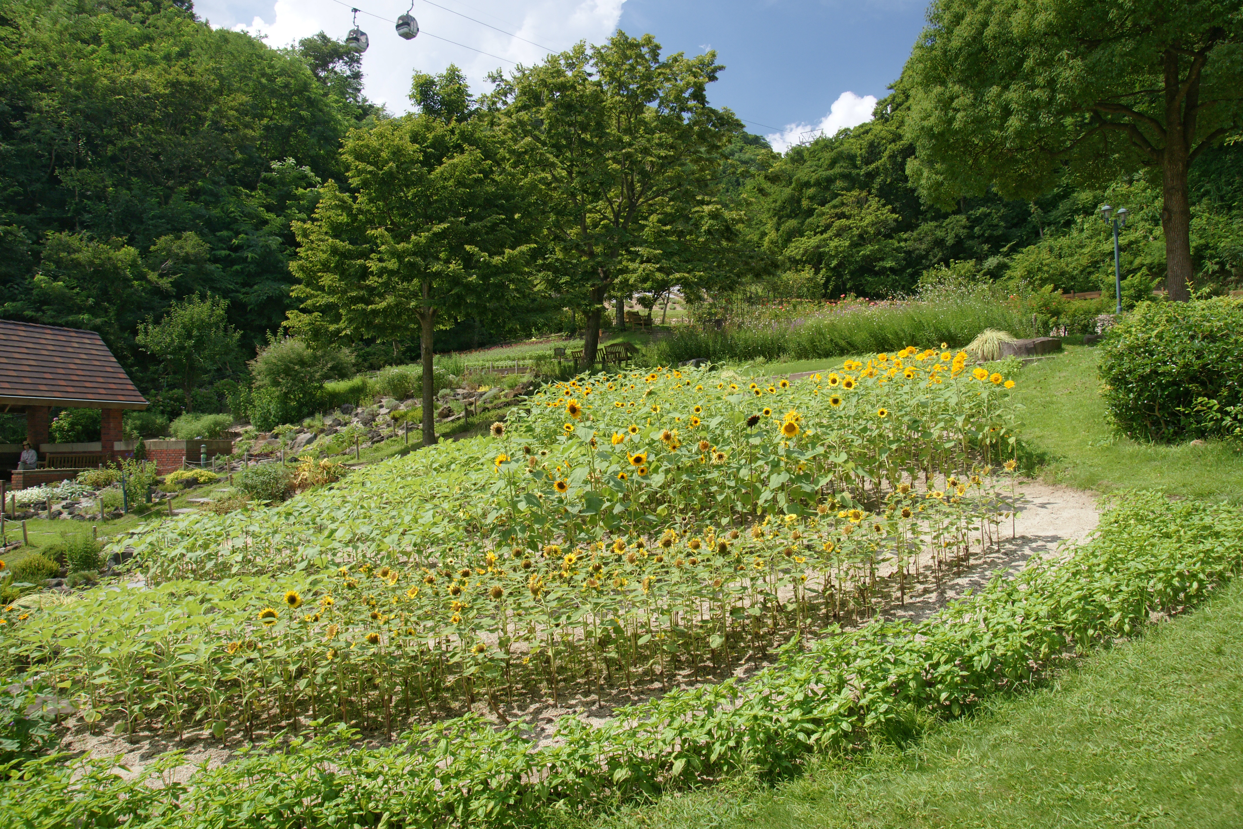 Nunobiki Herb Garden in Kobe, Hyogo prefecture, Japan